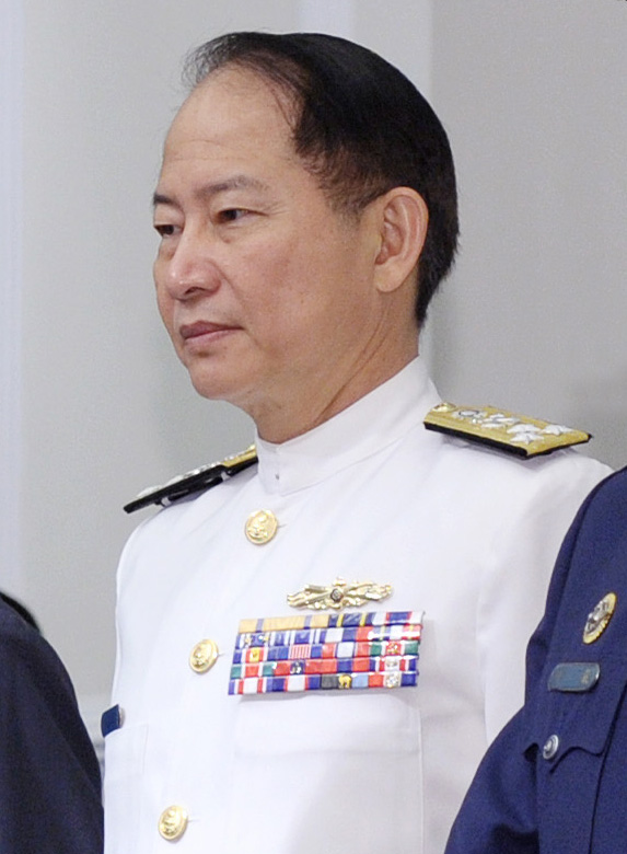 Admiral Tung Hsiang-lung, Commanding General of the Navy.